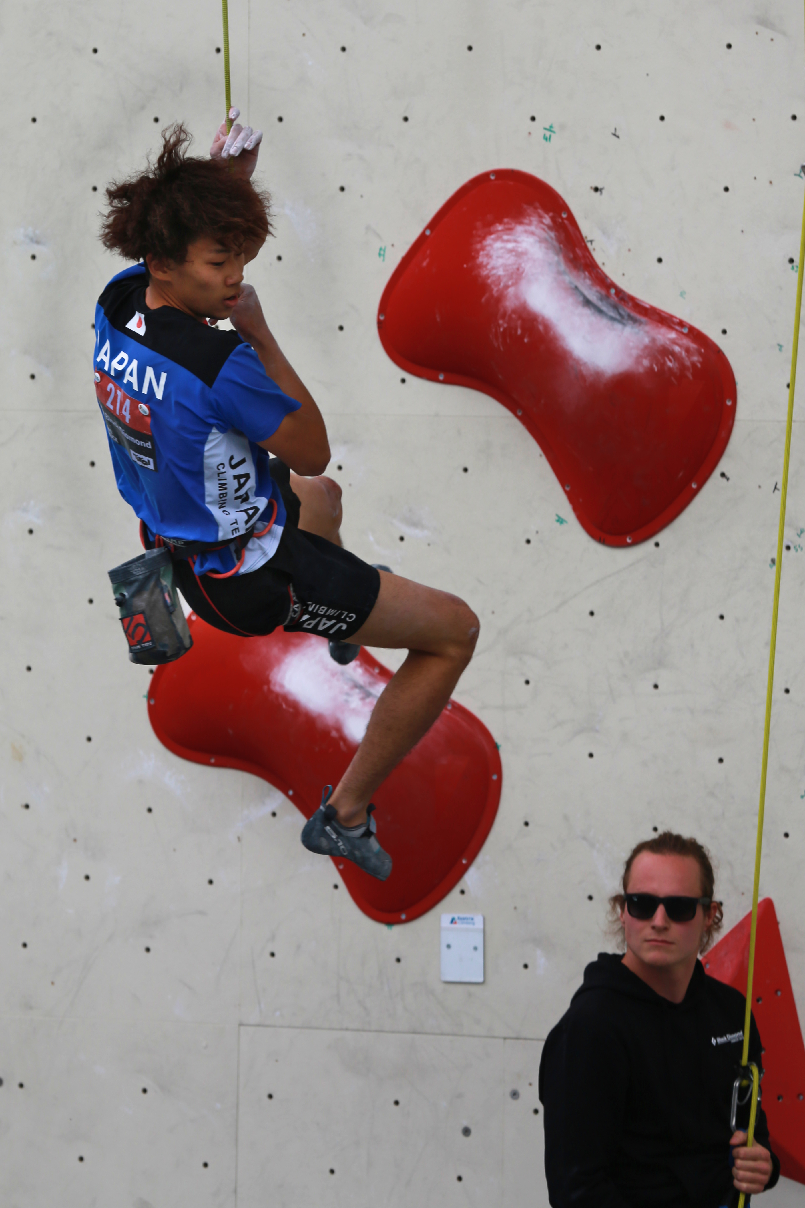 IFSC Climbing World Championships Innsbruck 2018 Qualification MEN lead 214 OGATA Yoshiyuki JPN